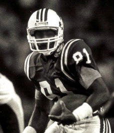 New England Patriots wide receiver Stephen Starring running with the ball during a 1984 home game against the Washington Redskins.